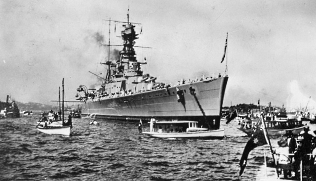 HMS Hood in Sydney Harbour shortly after arriving with the other ships of the Royal Navy's Special Services Squadron.